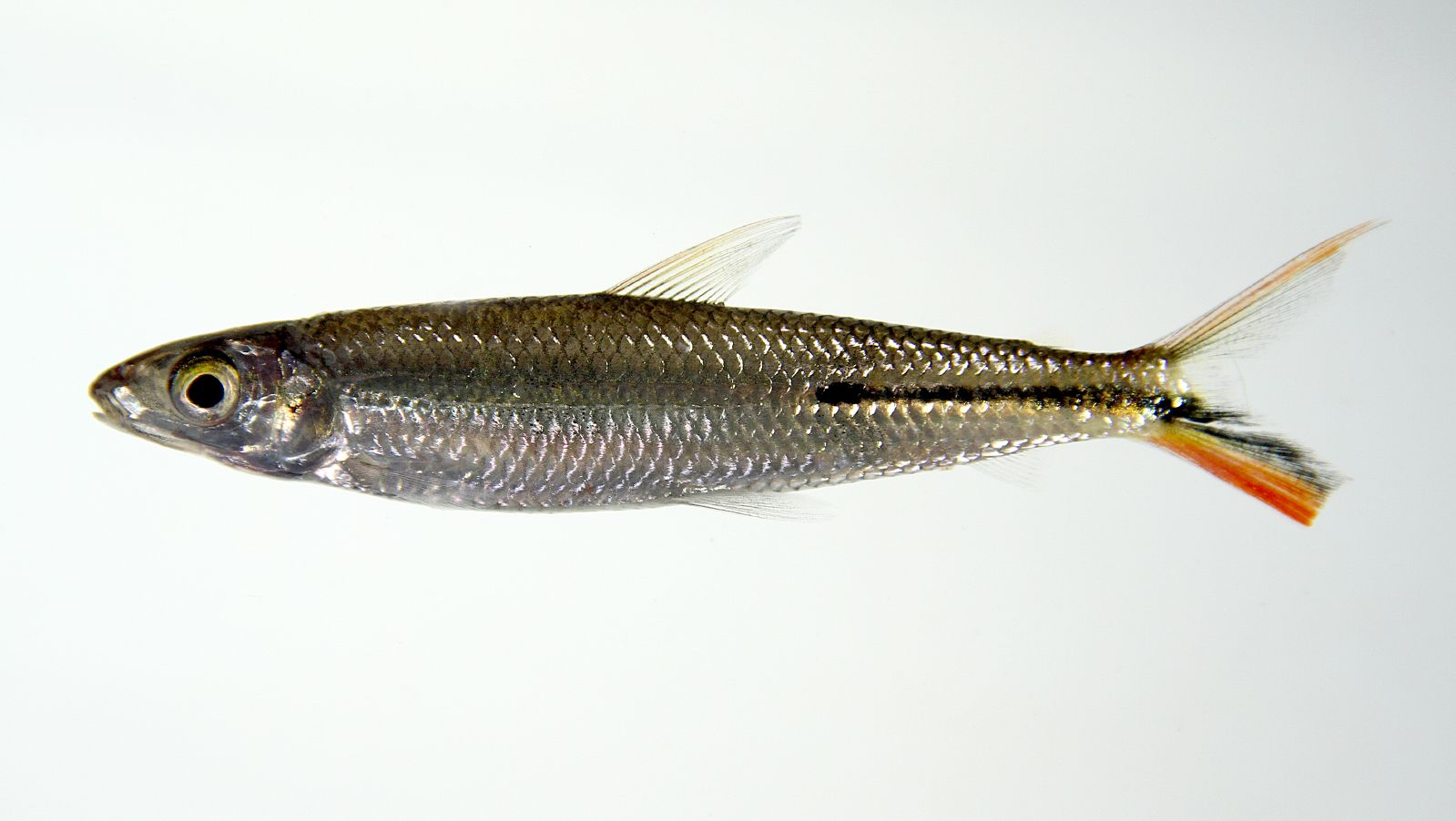 Hemiodus cf gracilis